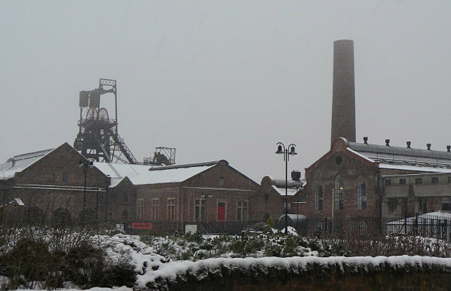 Lady Victoria Colliery This view gives some idea of the extent of surviving buildings. Between the headstocks and the chimney is the winding engine house; the large building to the right is the power house which would have included the compressors for the underground compressed air machinery.